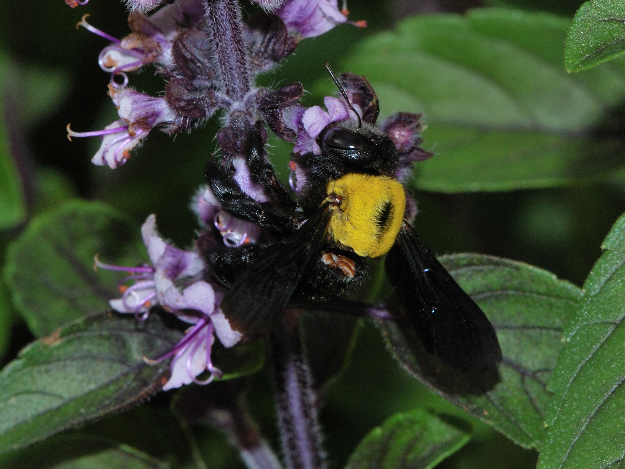 Female of Xylocopa pubescens foraging on basil. Symbiotic mites (Dinogamasus sp.) can be seen in the bee's acarinarium. Photographed in Tel Aviv, Israel, March 8, 2010.